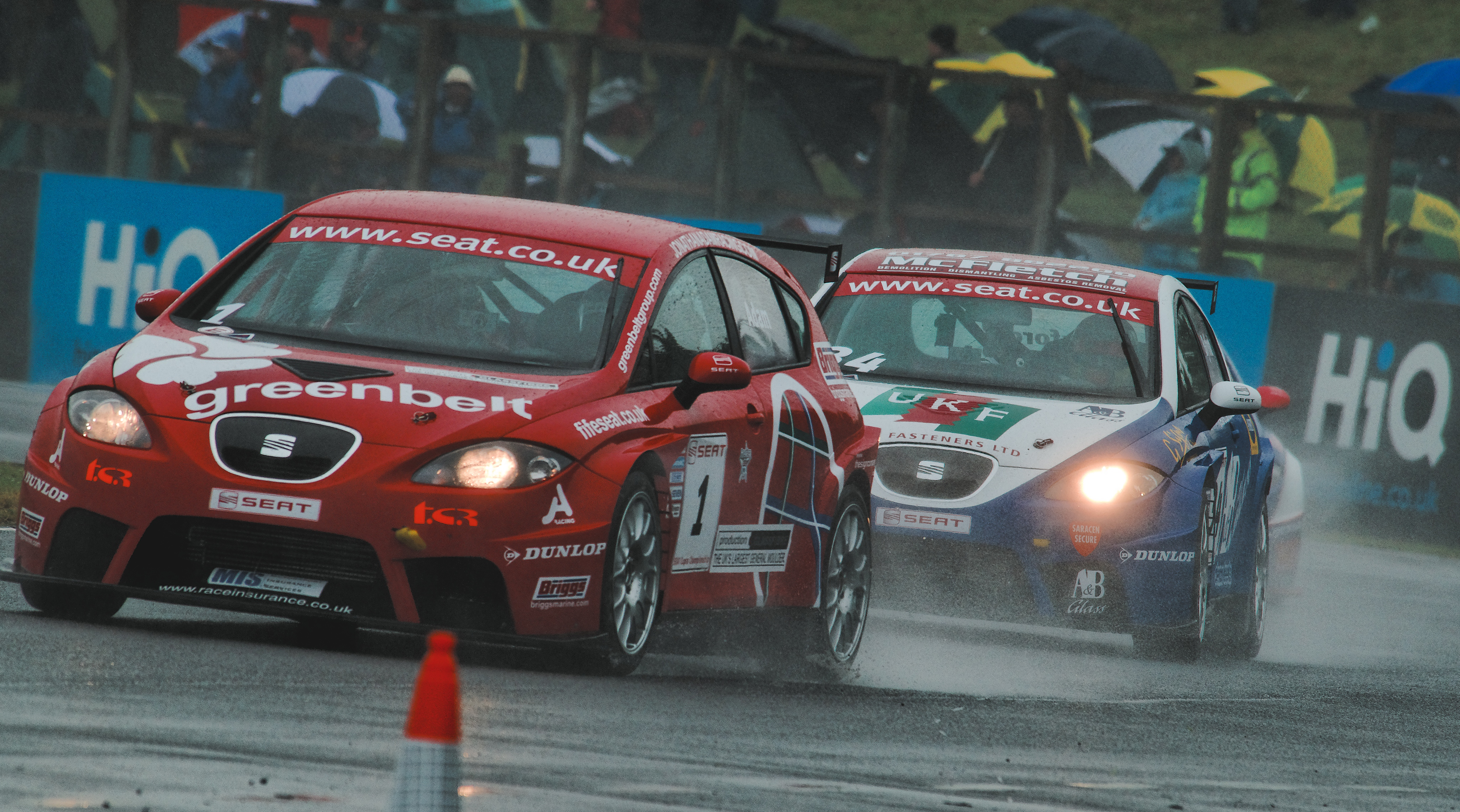 Jonathan Adam driving at the Croft round of the 2008 SEAT Cupra Championship.